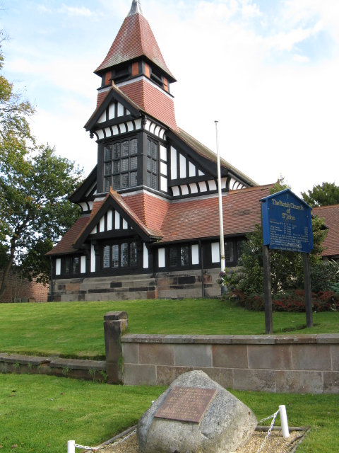 St John's parish church, The Avenue, High Legh, Cheshire, seen from the southwest